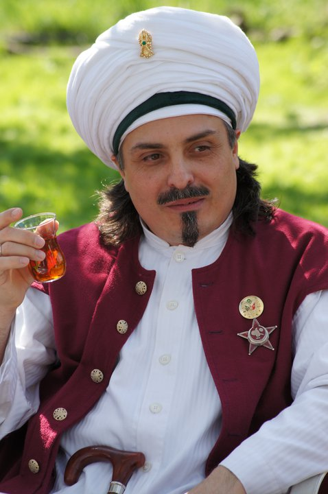 Sheikh Esref Efendi